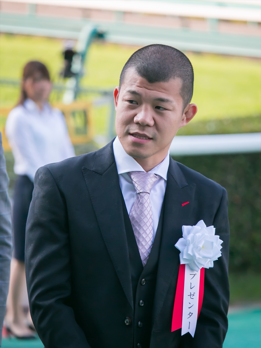 Kōki Kameda in Hanshin Racecourse.